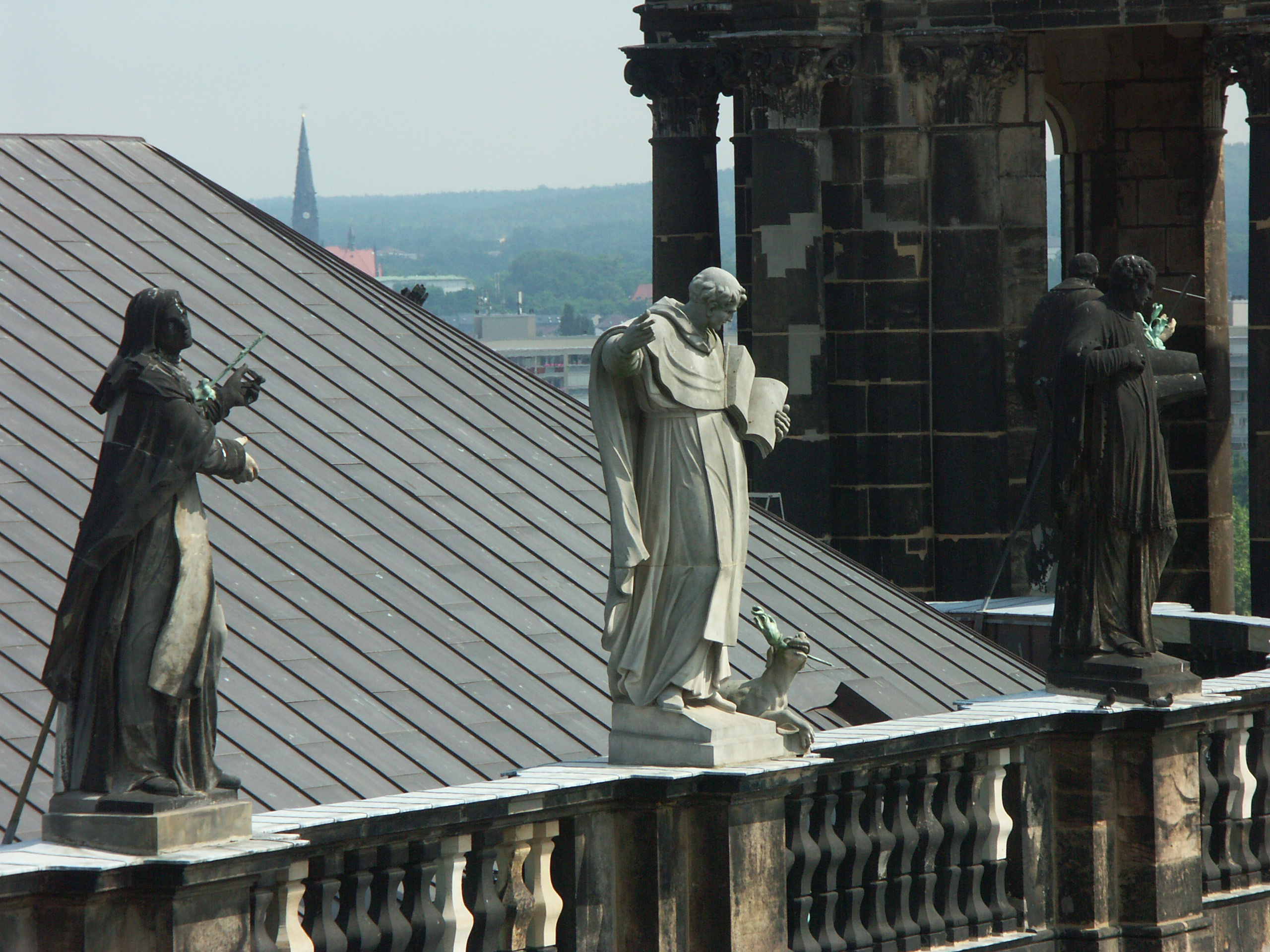 Dresden 2010 | Blick vom Schlossturm / Hausmannturm | view from the castle tower / Hausmann tower | Skulpturen auf der Hofkirche | sculptures on the court's church